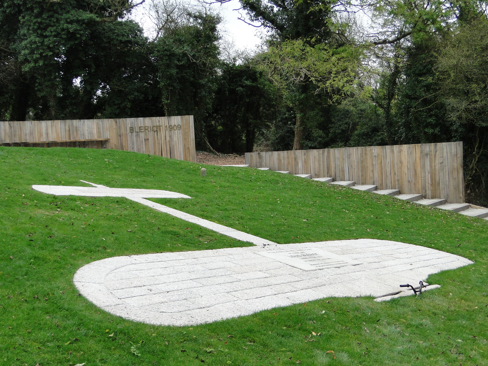 Blériot Memorial in Kent, England.